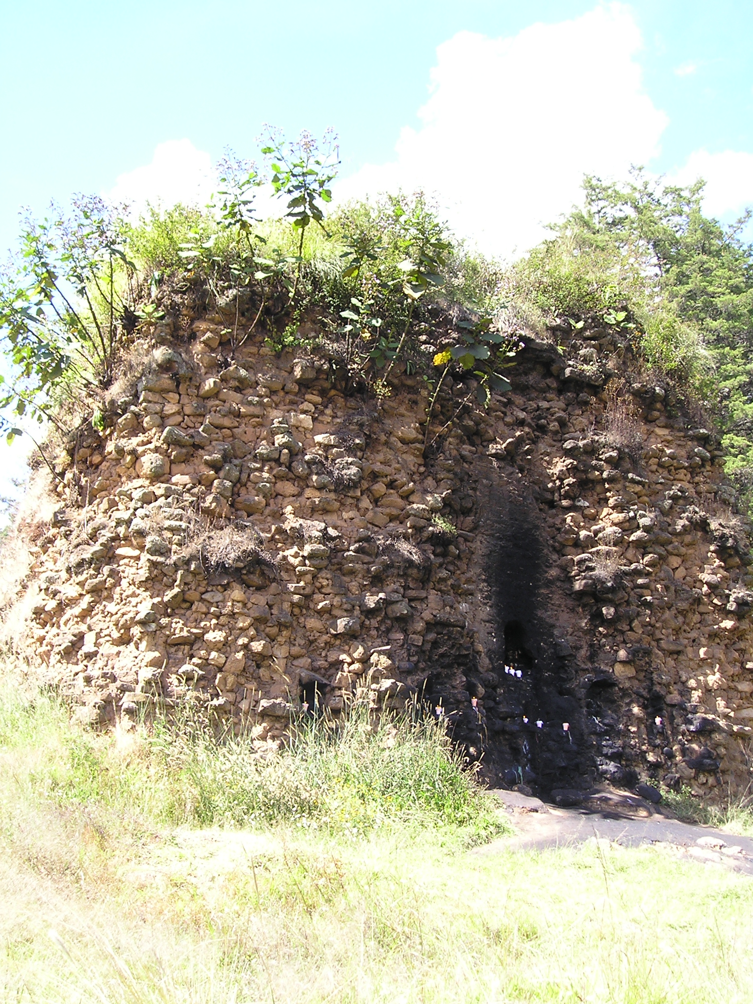 Temple of Tohil in Gumarcaj (Utatlán)